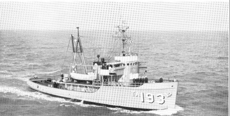 USS Stallion (ATA-193) underway, date and location unknown. US Navy photo from DANFS